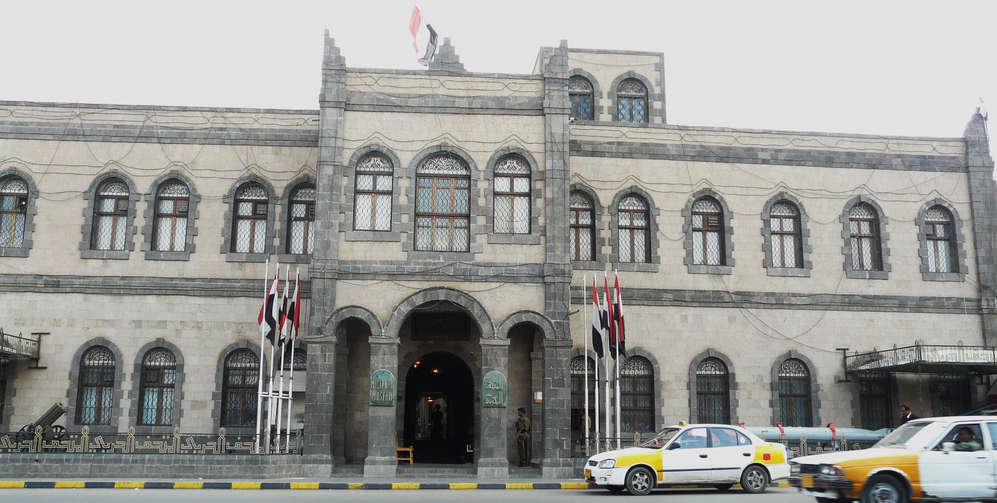 The military museum of Yemen (in Sana'a).